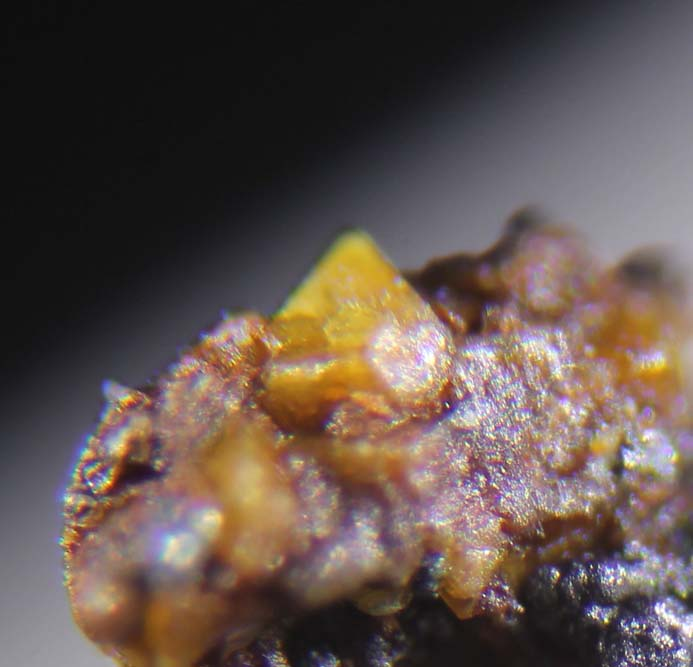 Outstanding perfect dark yellow schoenfliesite crystals on a contrasting matrix. From: Zlaty Kopec, Bohemia, Czech Republic. Schoenfliesite is a very rare Mg-Sn hydroxide found in a few localities worldwide.